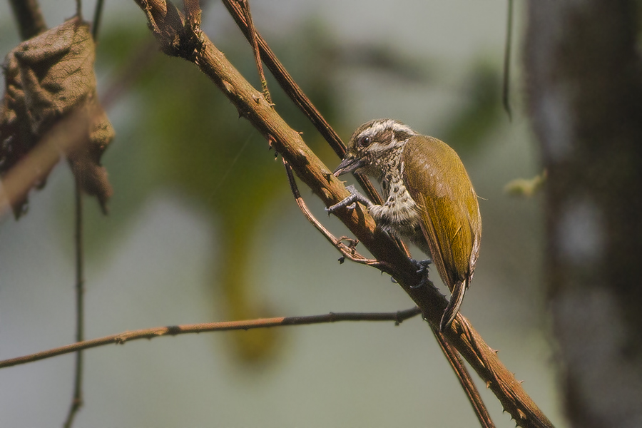 The species Speckled Piculet had been photographed from Pangolakha Wildlife Sanctuary in East Sikkim, India on 11.04.2016.